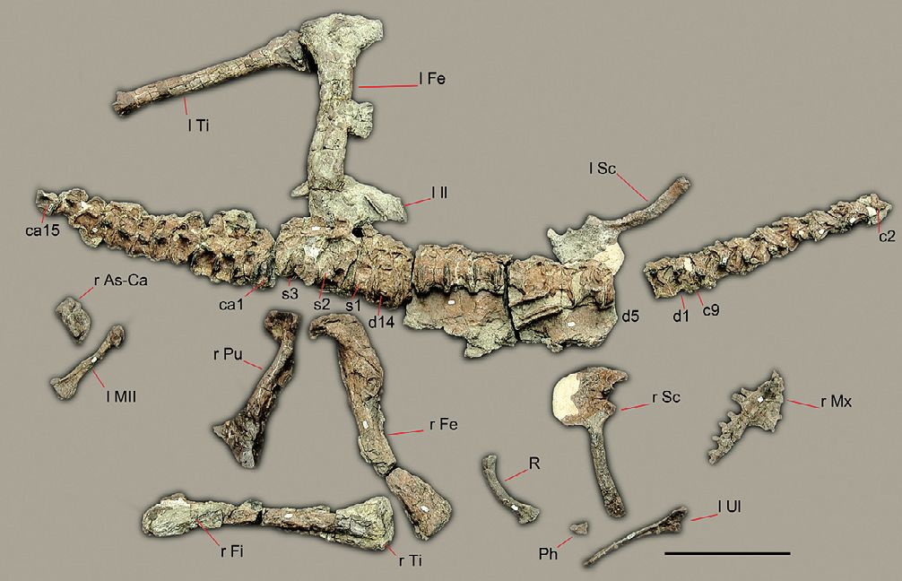 Preserved bones of Sanjuansaurus gordilloi (PVSJ 605).